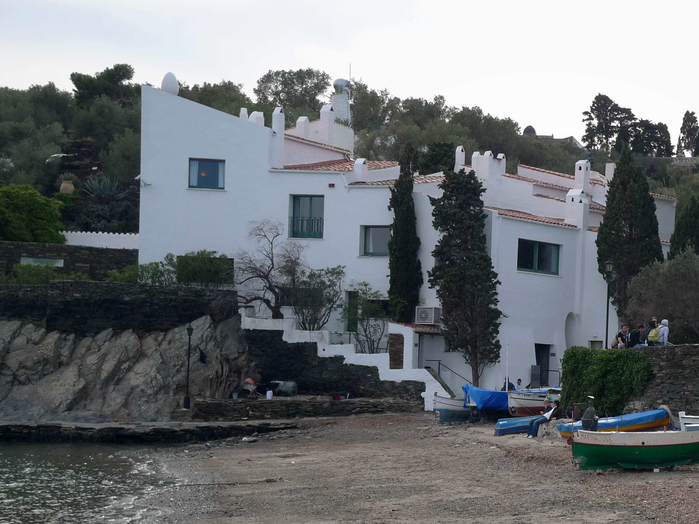 house of Salvador Dali in Port Lligat Cadaqués (Catalonia, Spain).